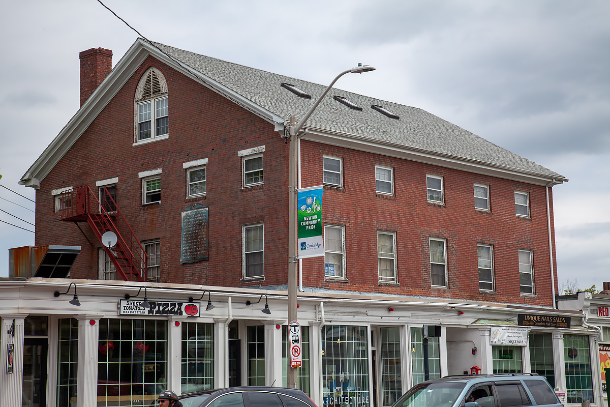 West Newton. Built by Seth Davis. Site of first meeting of Unitarian society with Horace Mann. Photo by John Borchard